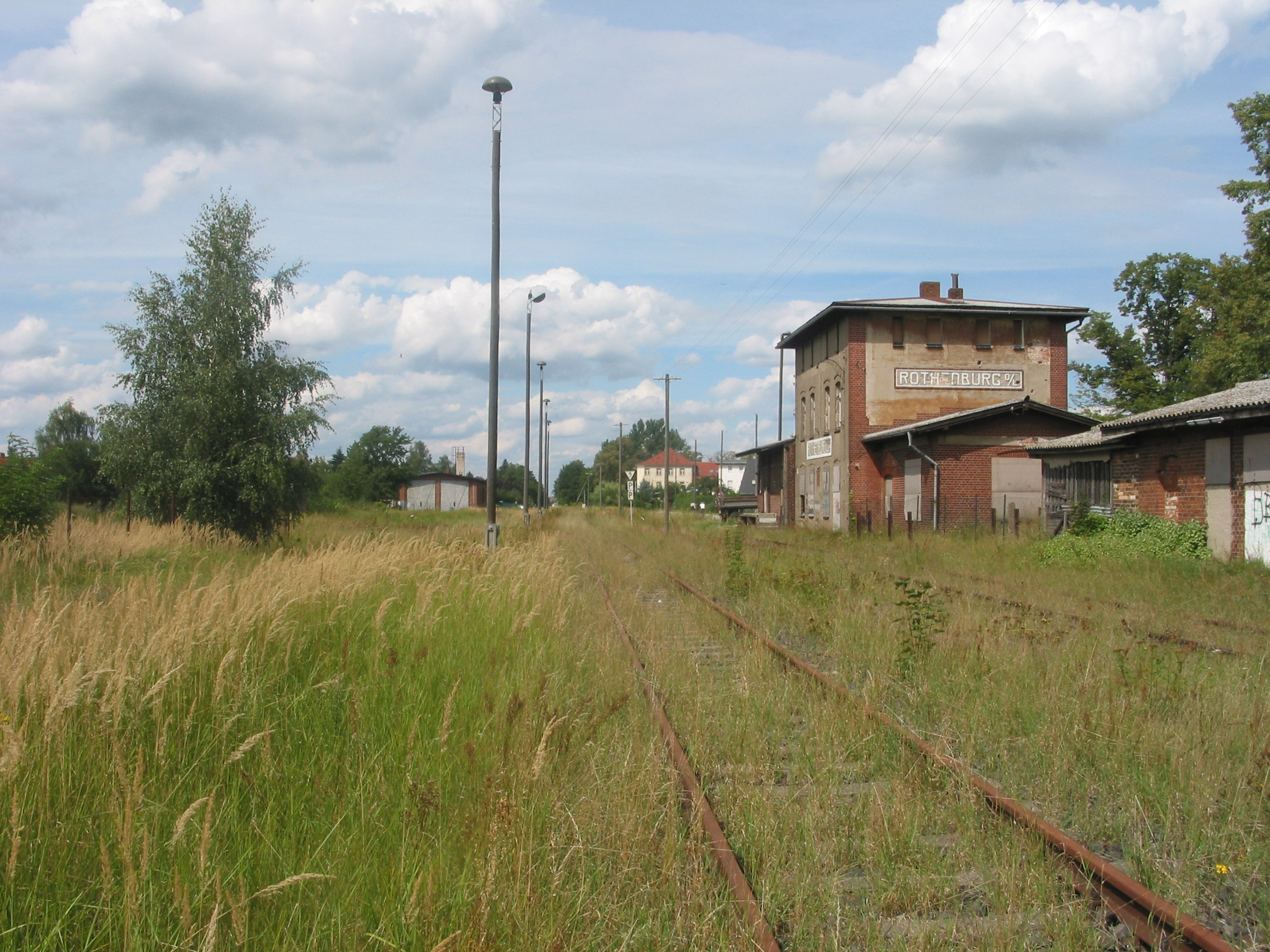 Station Rothenburg/Oberlausitz (Saxony) in the year 2007